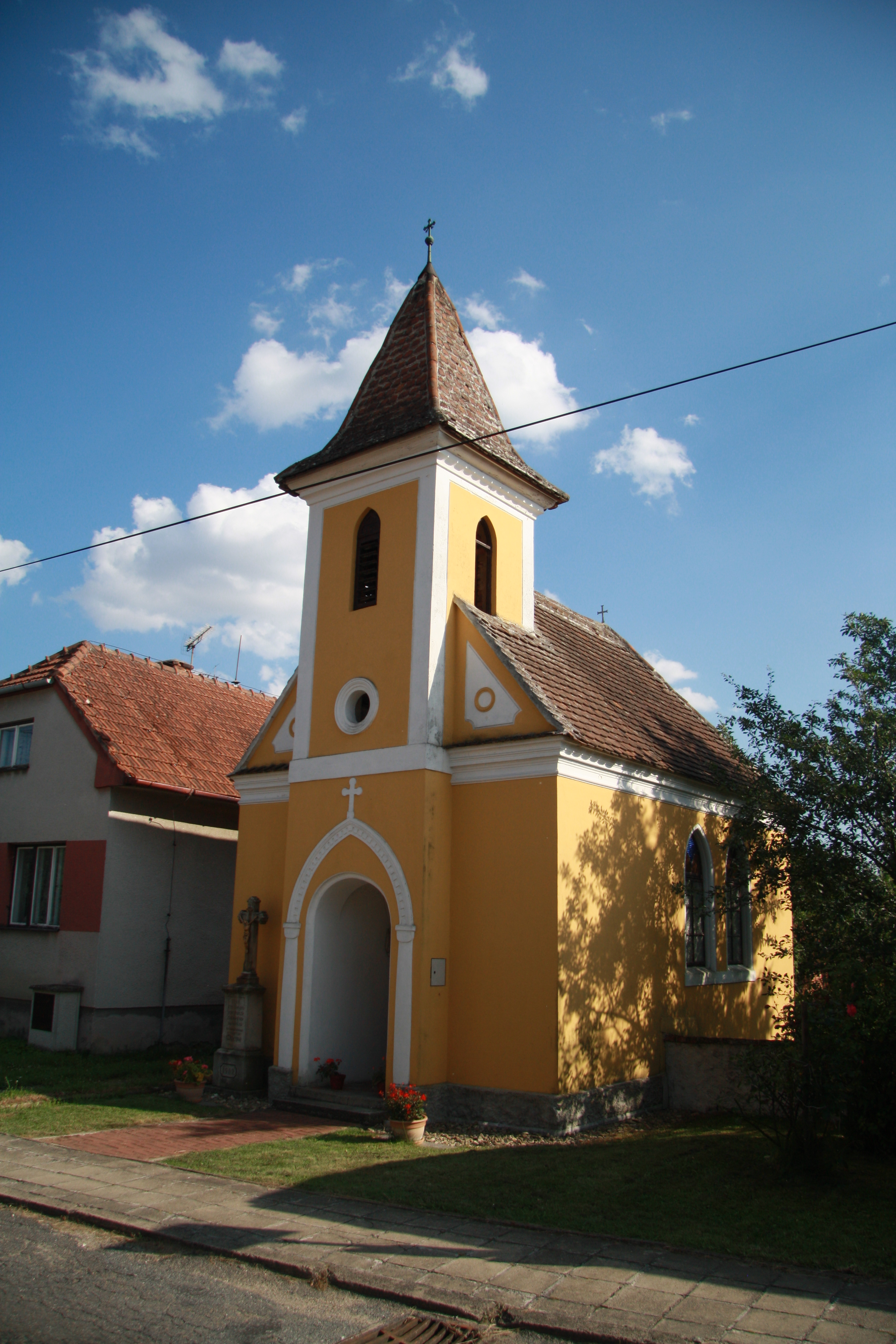 Chapel of the Virgin Mary of the Rosary in Zblovice, Znojmo District.